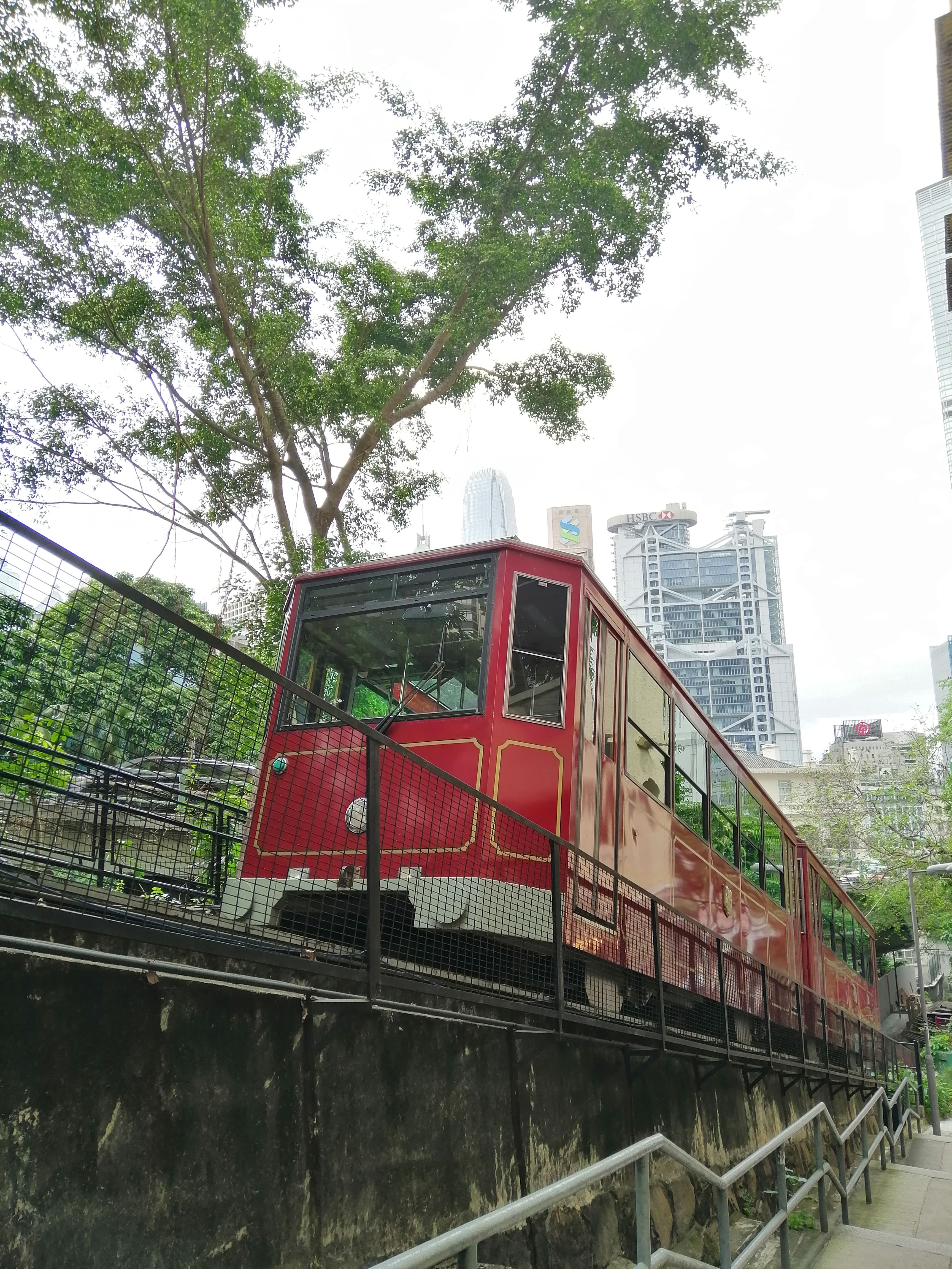 peak tram 1